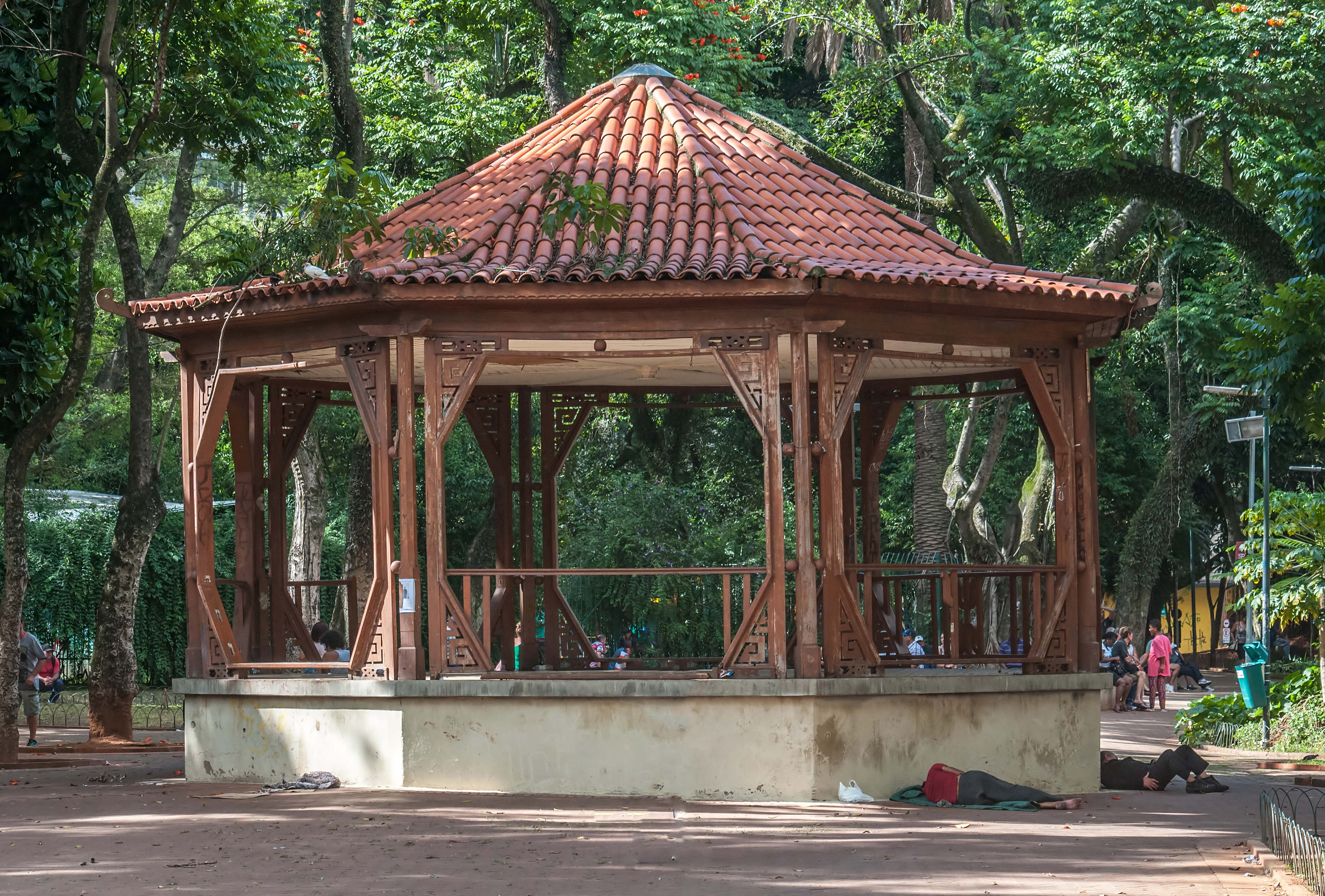 Gazebo in república square, São Paulo, Brazil